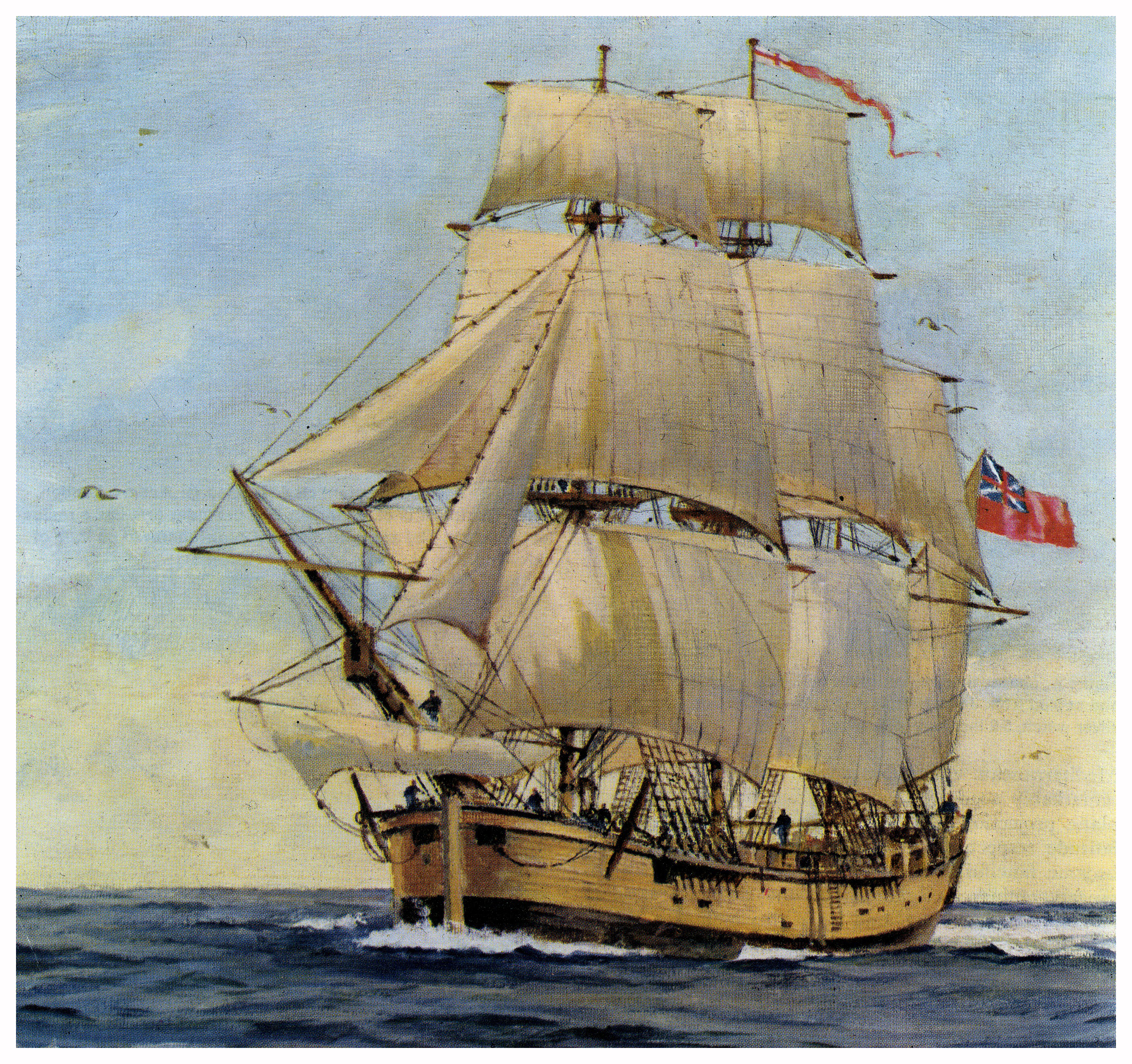 On 26 August 1768, Captain James Cook departed from Plymouth on the HMS Endeavour. With him were 94 men, copious supplies, and secret instructions to locate the fabled southern continent known as ‘terra australis incognita’. They did not find the unknown continent, but they did arrive in Aotearoa New Zealand. His name, and that of the ship, has dominated the story of European exploration of Aotearoa New Zealand ever since. The Endeavour was a relatively small vessel of 368 tons, just 32 metres long and 7.6 metres broad. It was originally the merchant collier Earl of Pembroke, launched in June 1764 from the coal and whaling port of Whitby in North Yorkshire, and of a type known locally as the Whitby Cat. A flat-bottomed design made the Endeavour well-suited to sailing in shallow waters, and allowed it to be beached for basic repairs without requiring a dry dock. This artwork was used for a School Journal Publication, and comes from a series of Education Publication folders. Archives Reference: AAAD 699 Box 23 / i For updates on our On This Day series and news from Archives New Zealand, follow us on Twitter: Material from Archives New Zealand Caption information from Te Ara